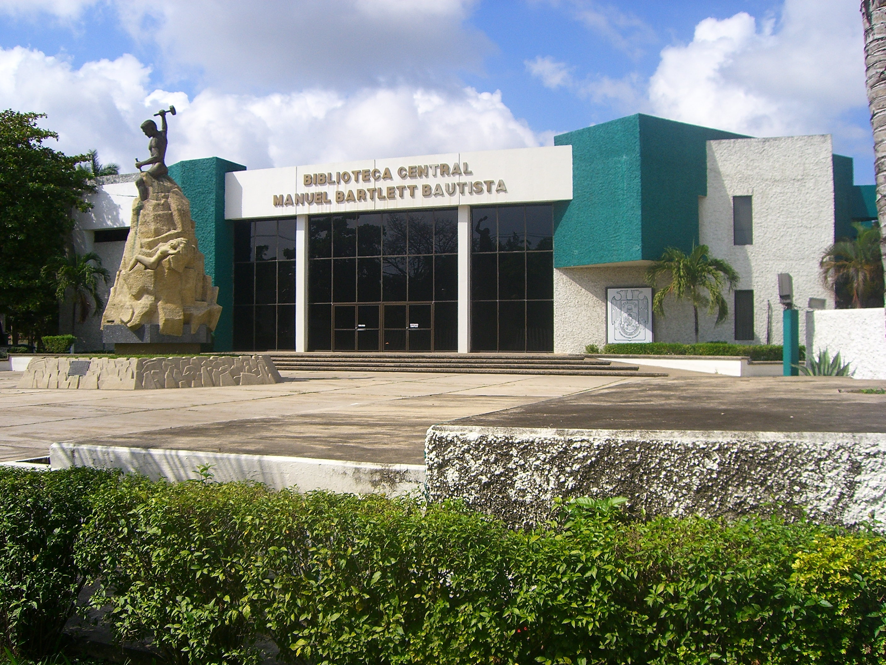 Biblioteca Central Manuel Bartlett Bautista, Universidad Juárez Autónoma de Tabasco